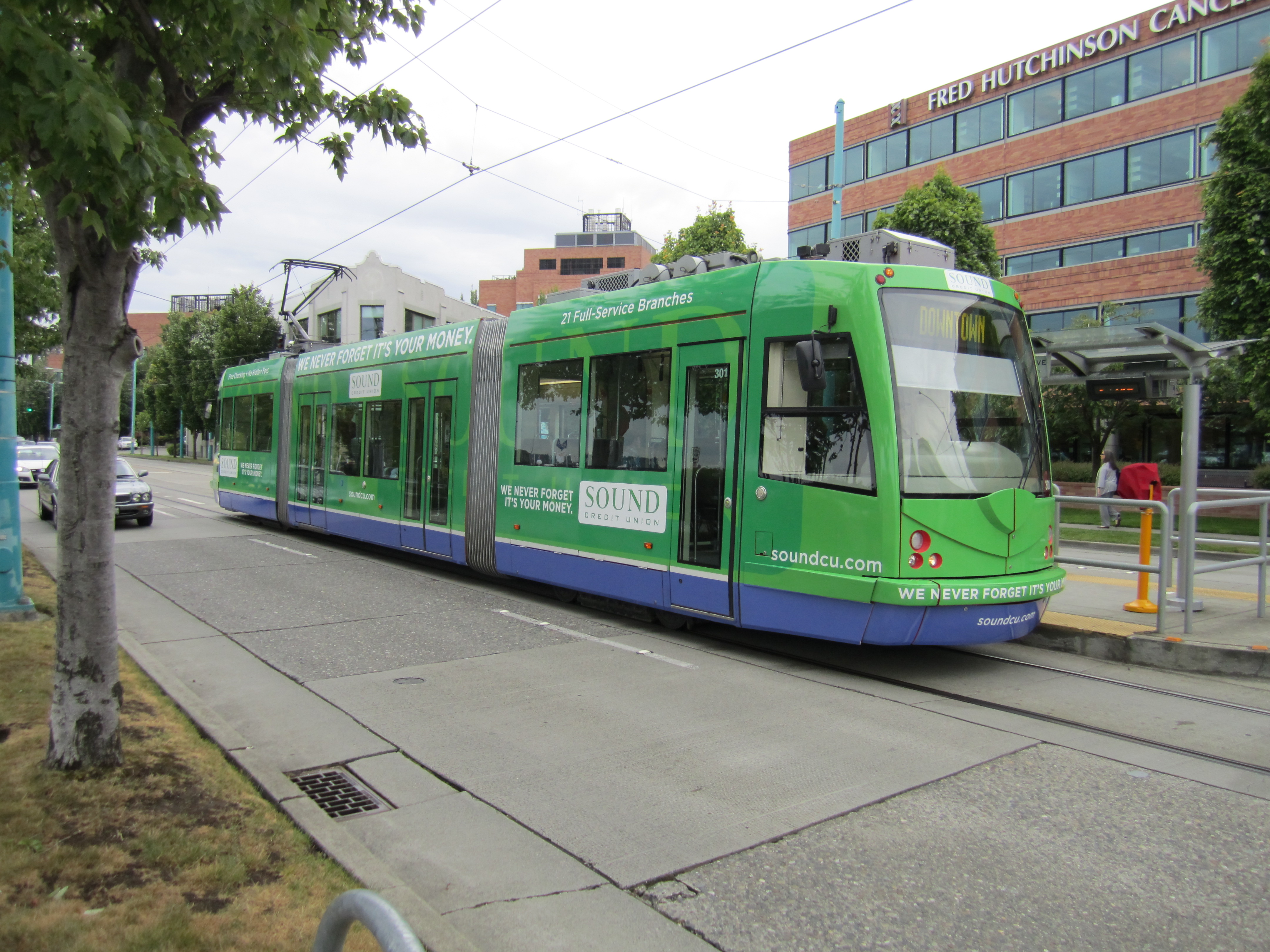 SLU Streetcar at Fairview & Campus Dr.